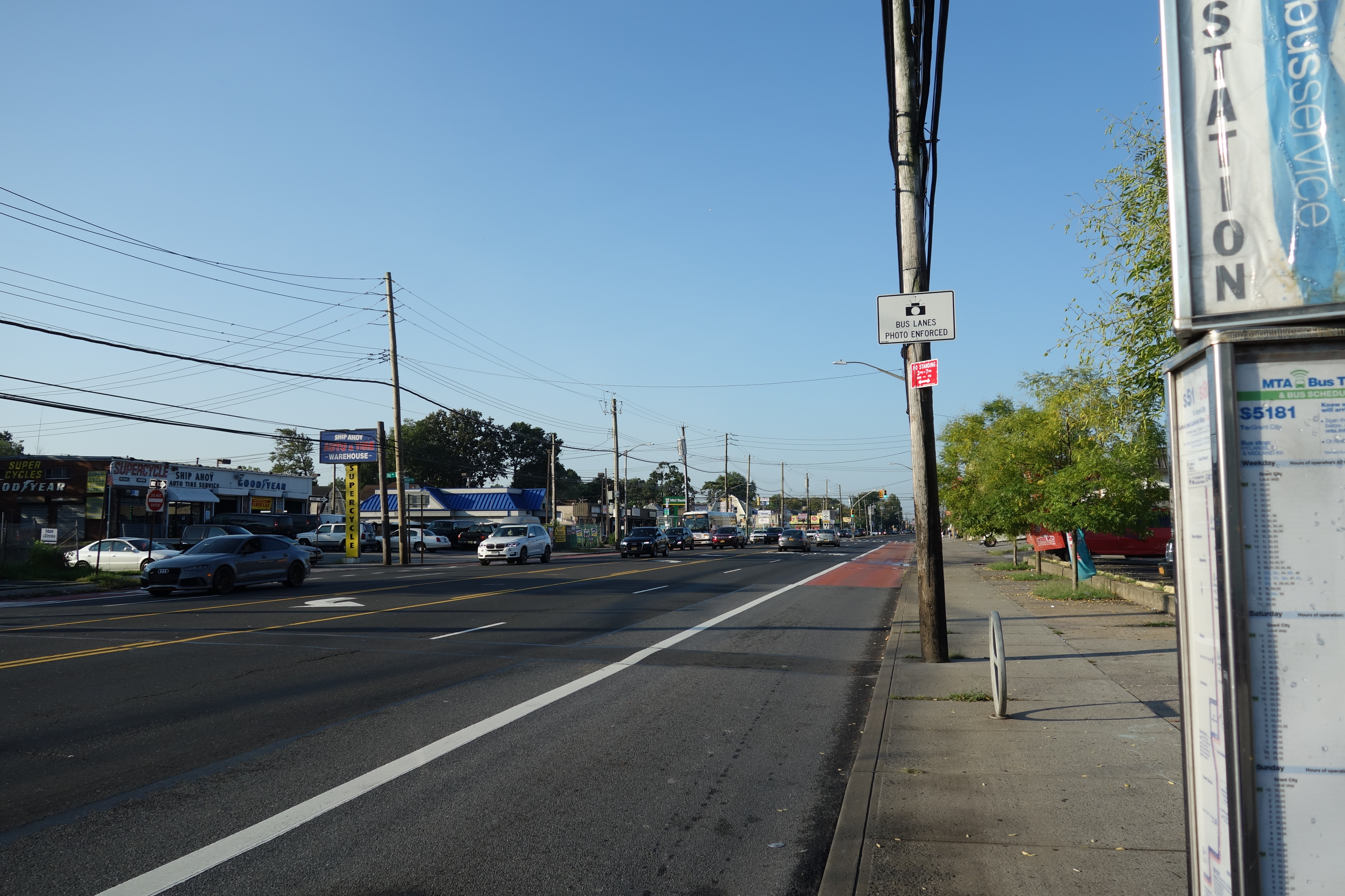 Looking south down Hylan Boulevard at Zwicky Avenue near Midland Avenue in Grant City / Midland Beach, Staten Island.